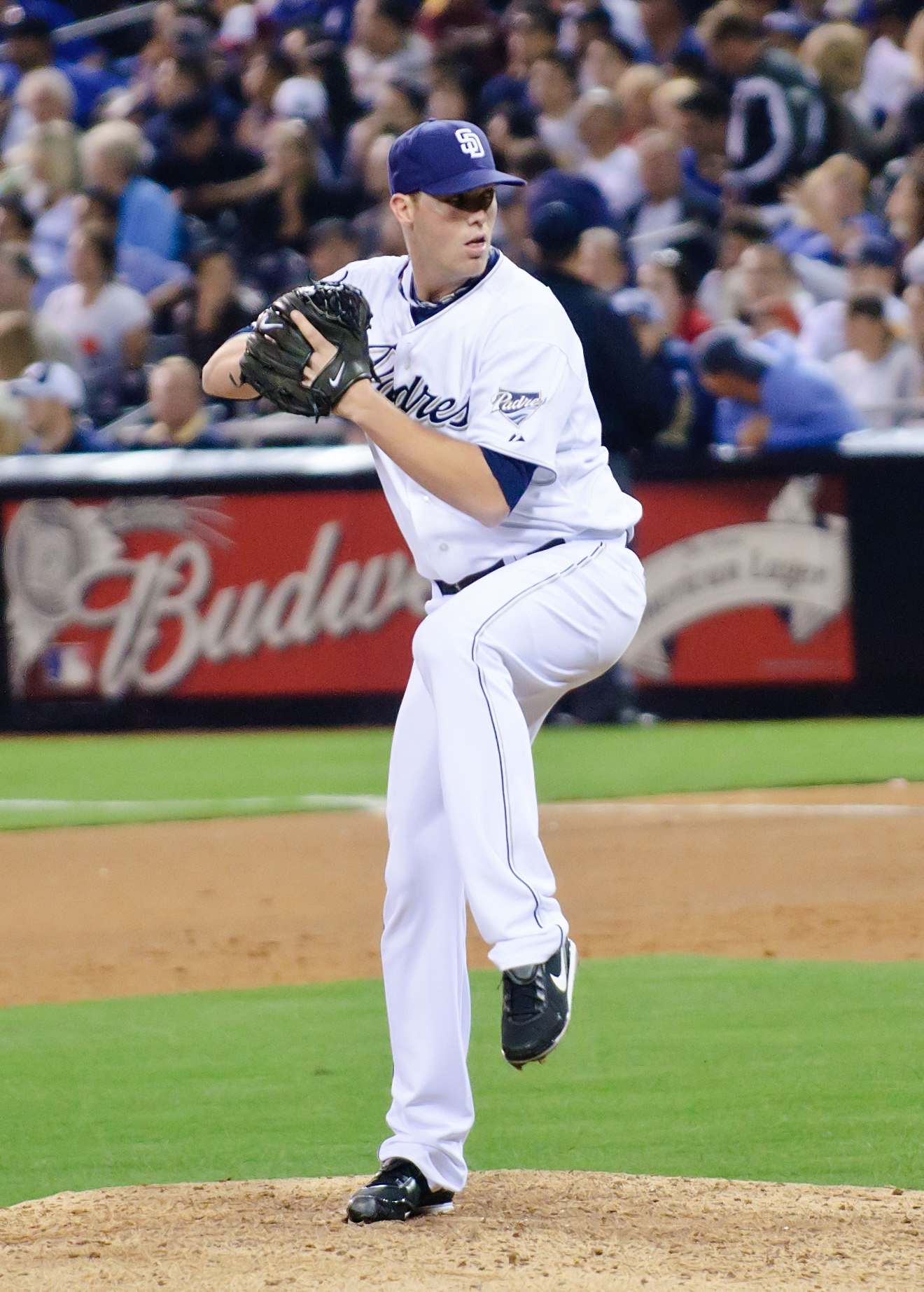 Ryan Webb, pitcher for the San Diego Padres.